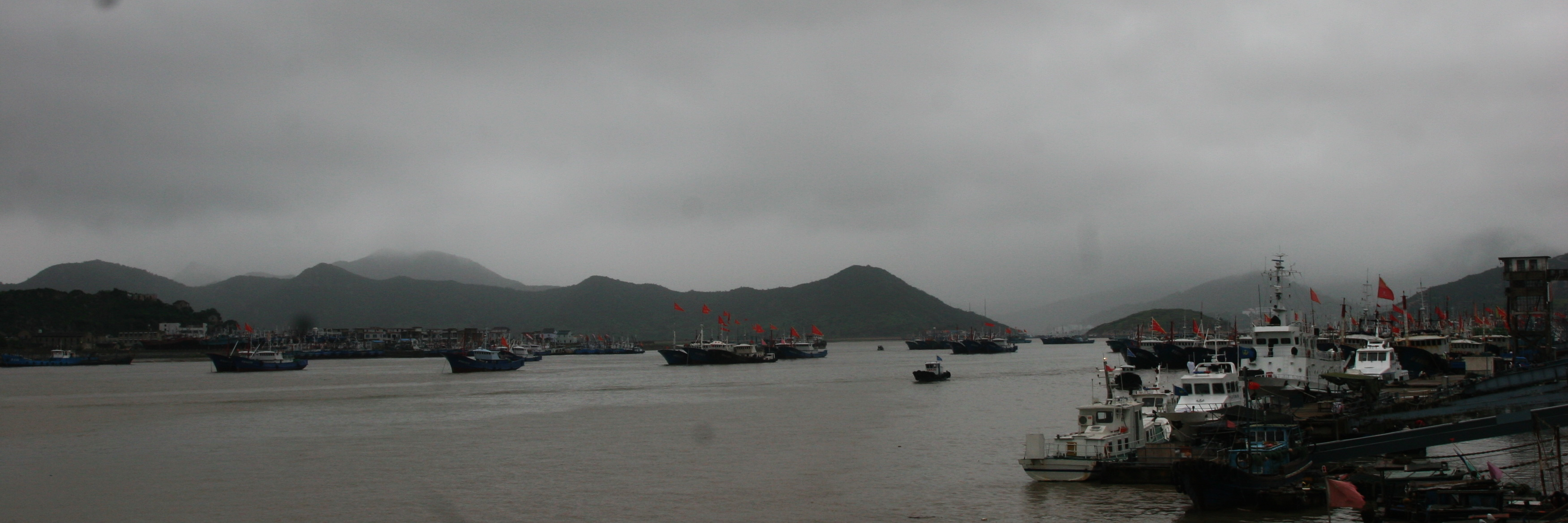 Port of Shipu, Xiangshan, Zhejiang